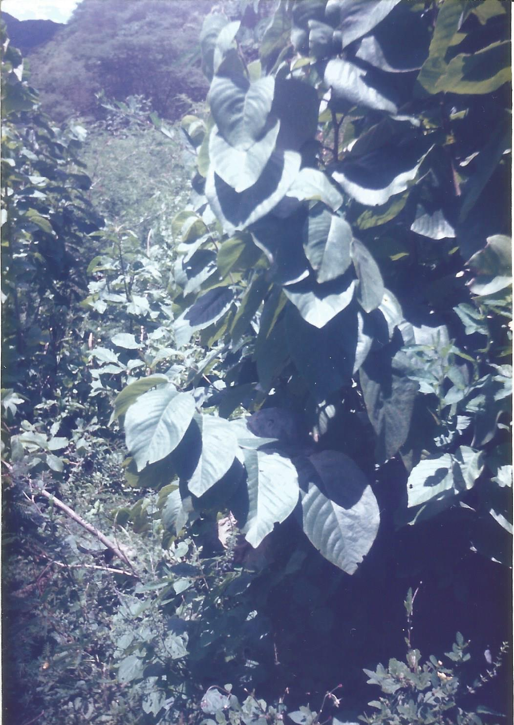 Cherimoya (Annona cherimola Mill.) plant occurring in a natural area in Vilcabamba, Ecuador. Photographs taken on March 18, 1999.